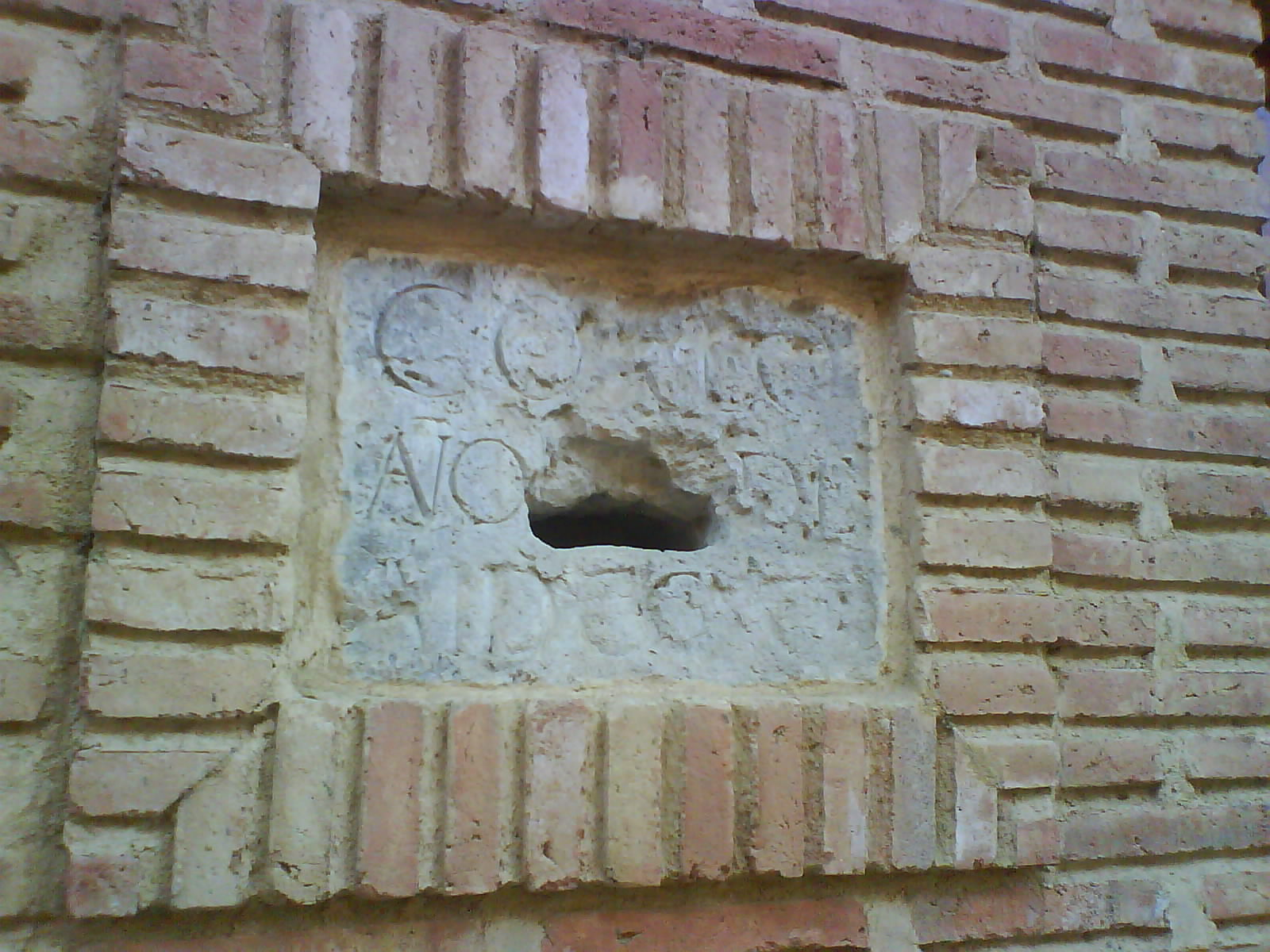 Post box made of stone in a facade in Mayorga (Valladolid, Spain), dated in 1793 and pretended to be the eldest in the country.